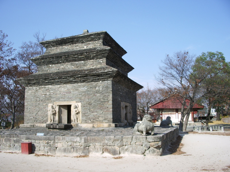 The only remaining major structure in Bunhwangsa is this brick pagoda. Brick pagodas, while common in China, are rare in Korea. It is thought that based on the architecture, it would have been 7 to 9 stories tall, and an old historical document does state 9 stories. But it was dismantled by Japanese archaeologists in 1915 and rebuilt - and the current 3-story configuration is what remains to this day. According to the official guide signs here, the Japanese are blamed for reducing the pagoda to 3 stories. But according to Wikipedia, the pagoda was hollow inside, and the upper levels had simply collapsed over time into the cavity.